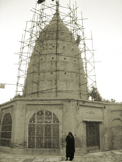 Tomb of Imamzadeh Ja'far, Borujerd, Iran